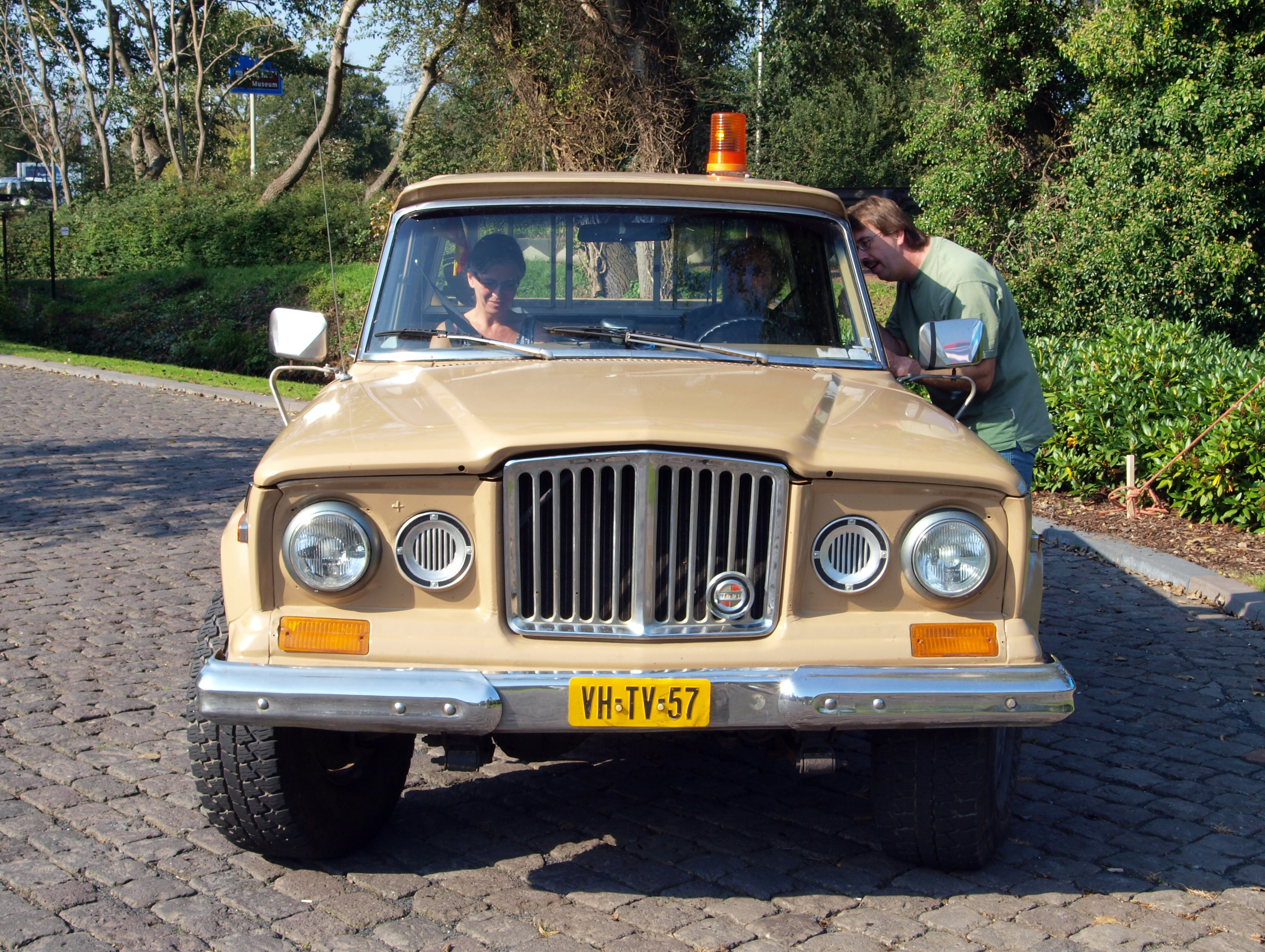 Photographed at the premmesis of the Louwman museum, The Hague, The Netherlands. OLYMPUS DIGITAL CAMERA